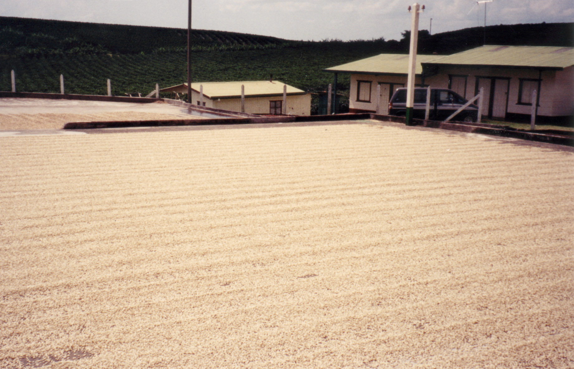 Coffee drying on a concrete patio at the Dolka plantation Costa Rica.